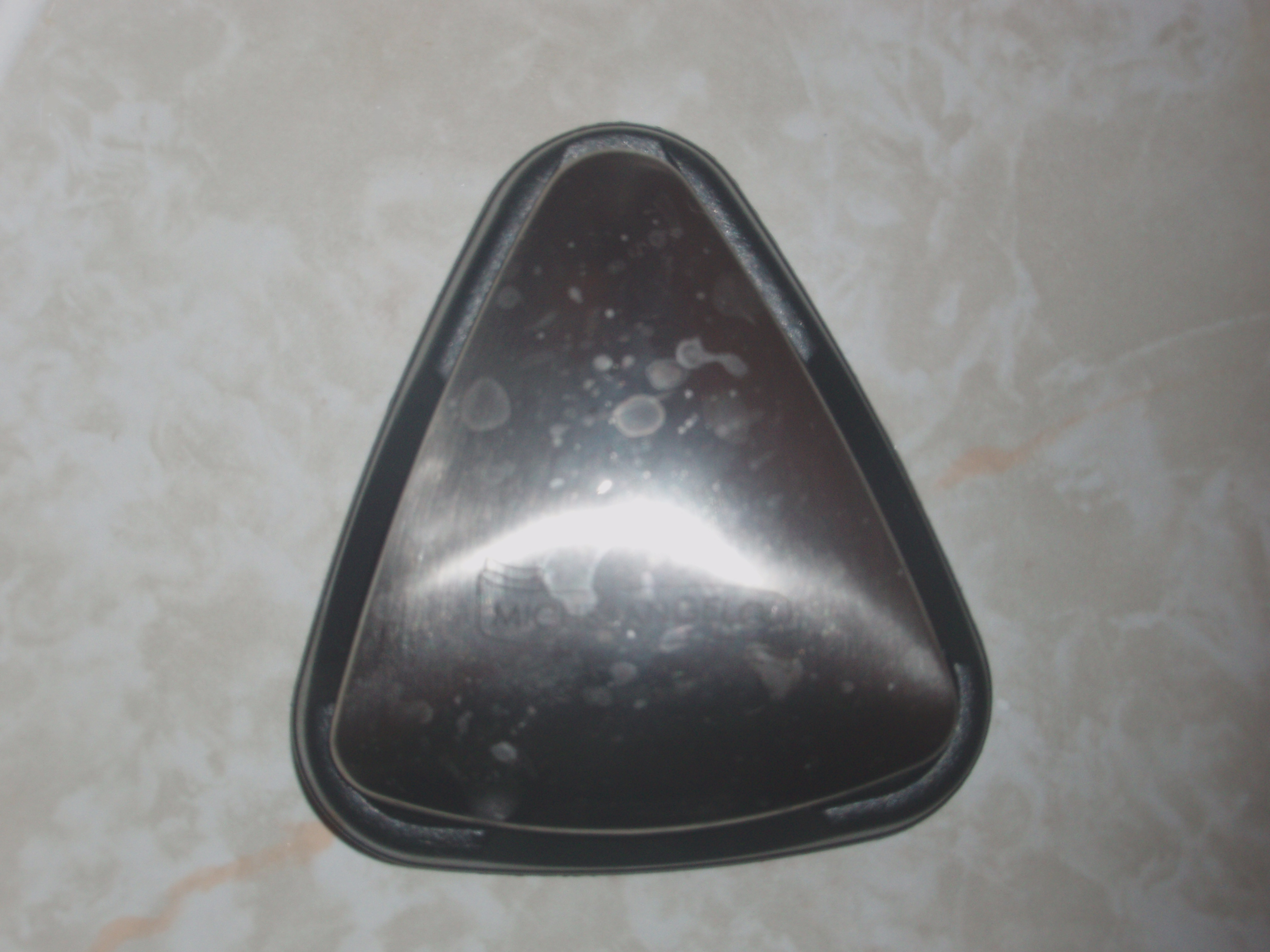 Original description at Wikipedia: "I took the image myself. The camera is different because there is a new camera but I will also use both. Image of steel hand soap, manufactured by German company Michaelangelo. Sorry if the flash is disturbing the details in the image. Steel soap removes odours from hand. Image taken in a bathroom, with the soap bar in a holder thingy."; edited with GIMP to adjust contrast and remove orbs.